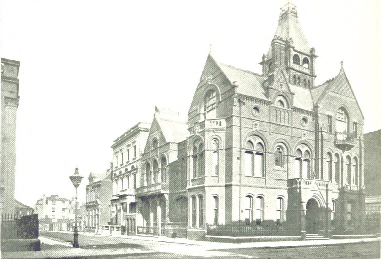 Image taken from page 86 of 'Southampton. An historical guide to the places of interest in the town and neighbourhood, including the New Forest, Winchester, etc'